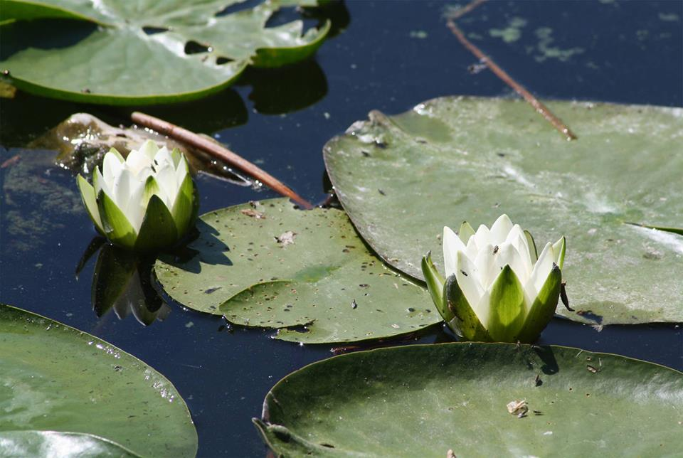 Ninfea alba